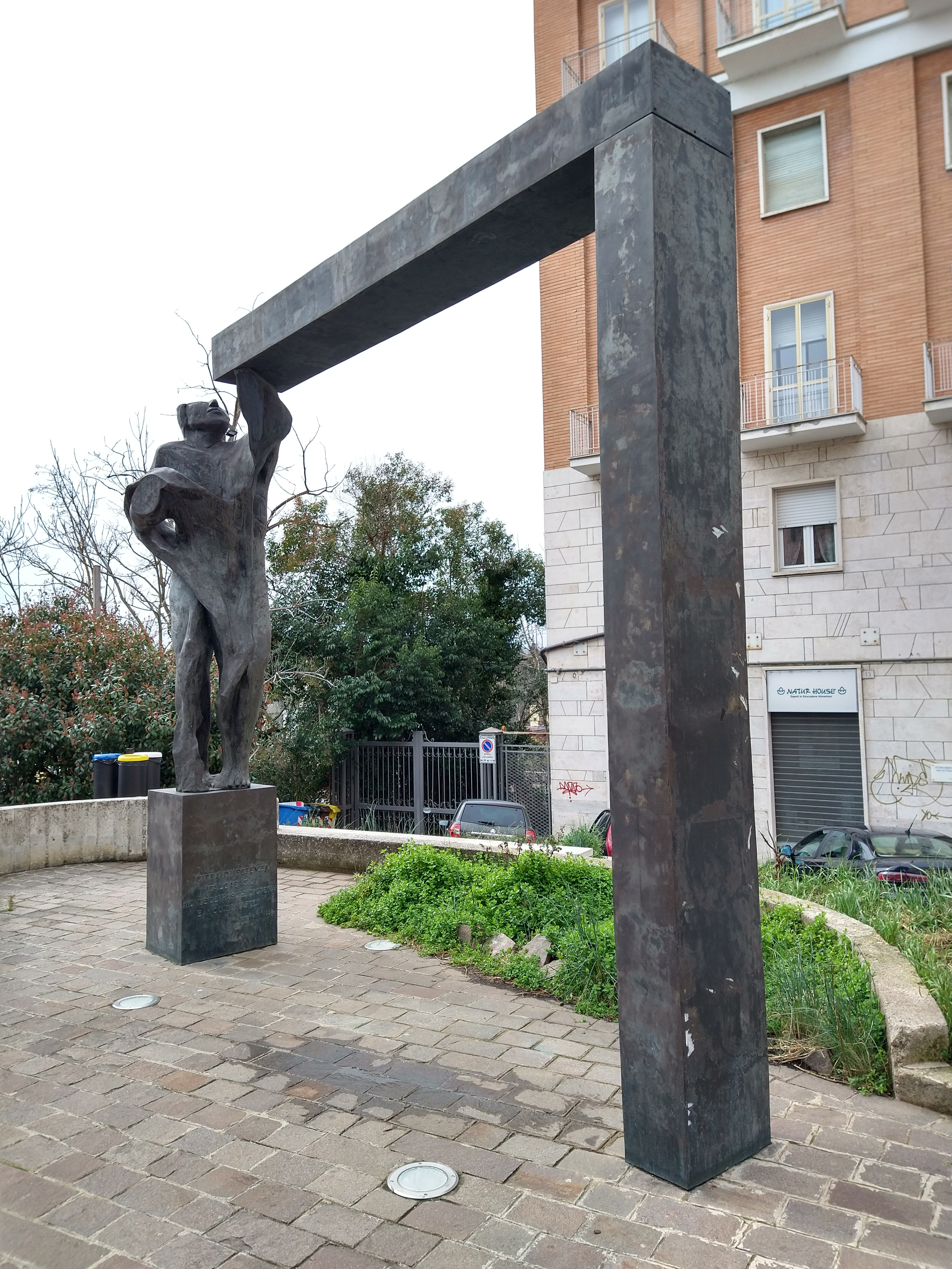 Porta del Gigante, bronze sculpture by Antonio Masini, Potenza, Italy